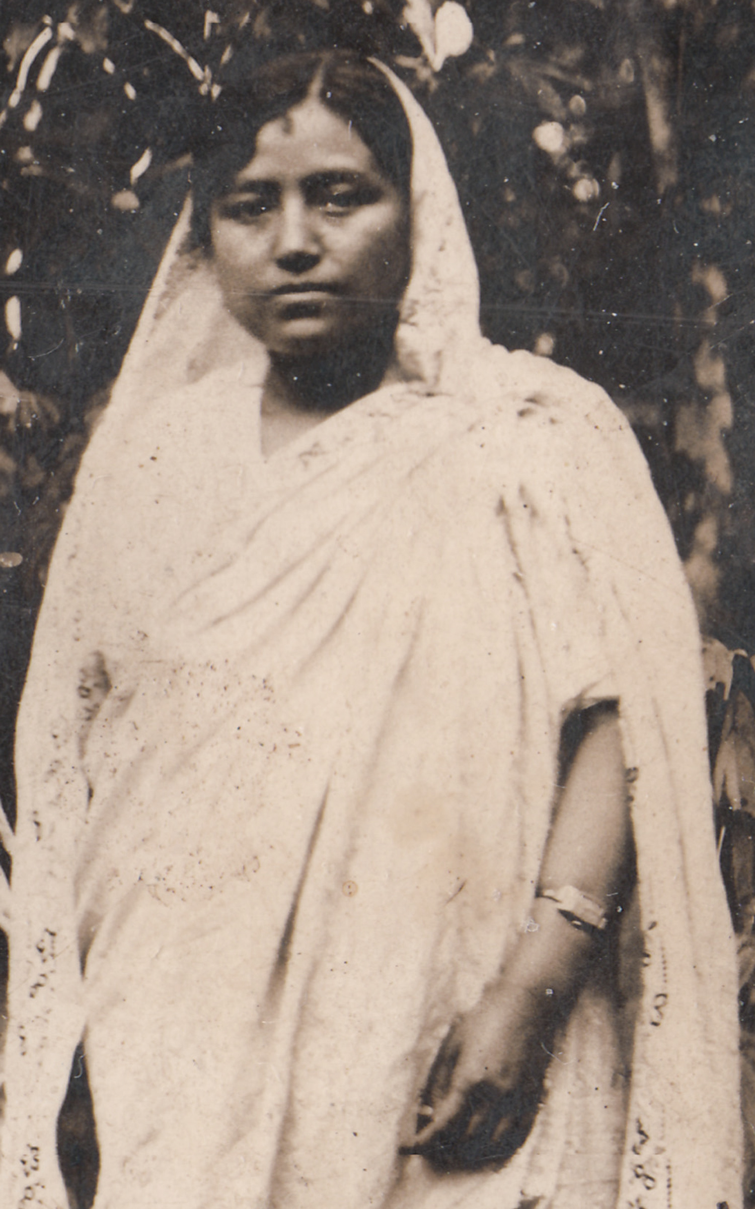 Vidyabati Kansakar (1906-1976) was a Nepalese pioneer of nursing and health worker.